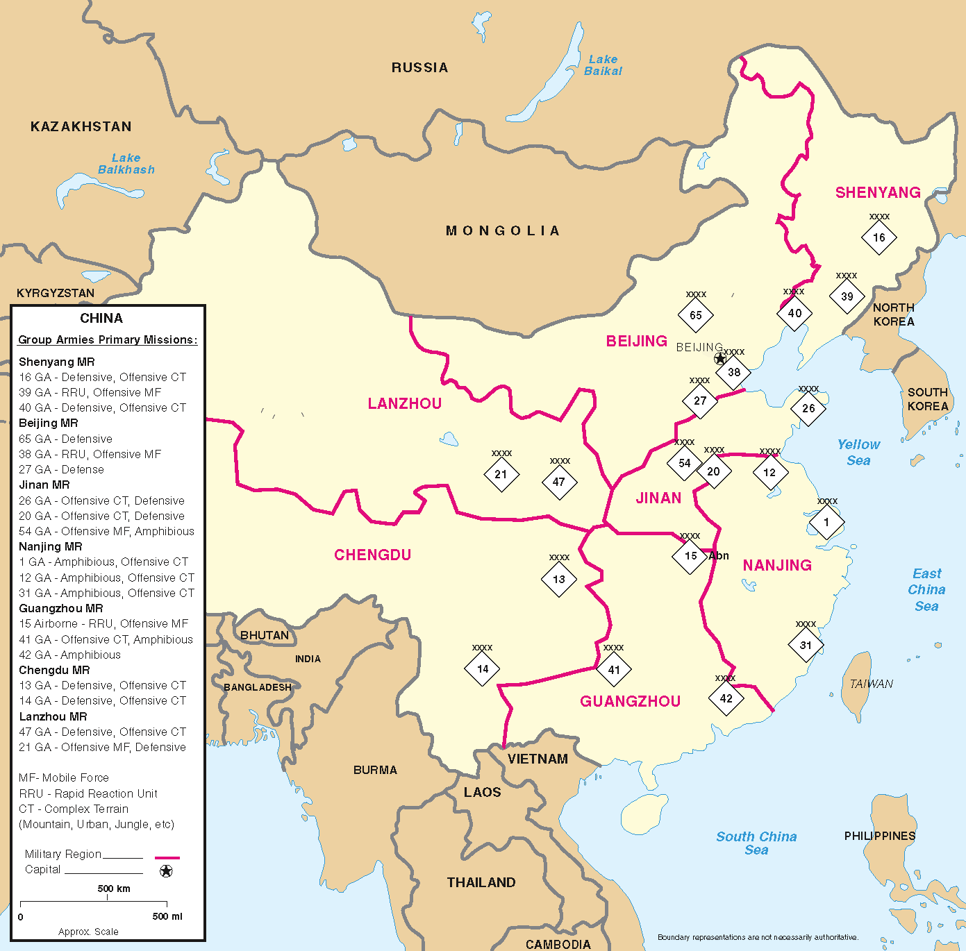 Figure 10. Major Ground Force Units